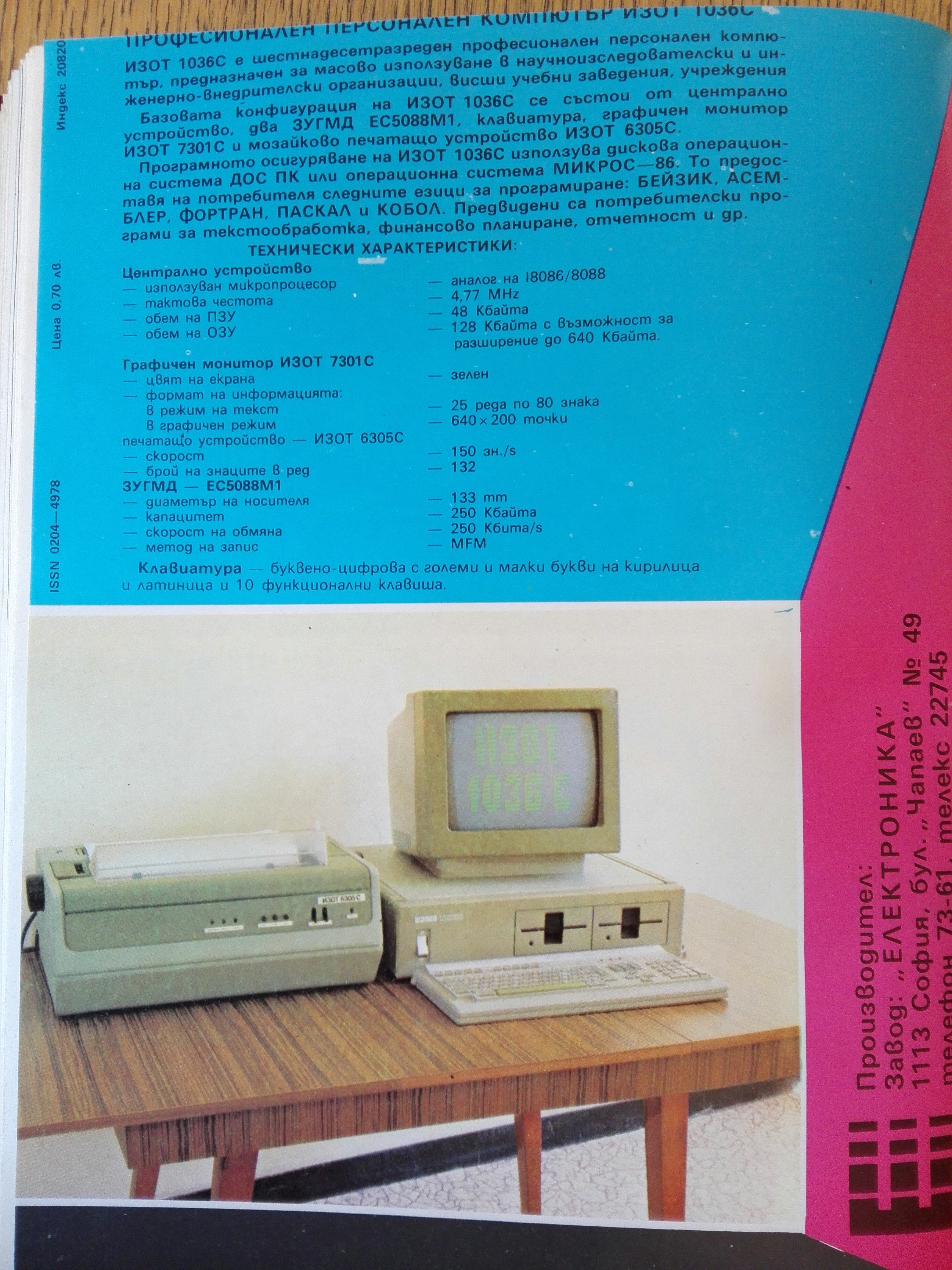 Back cover of Bulgarian journal Radio, television, electronics, issue 9 from 1985